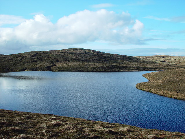 Little Water, Whalsay, Shetland. Looking north west across Little Water, Whalsay